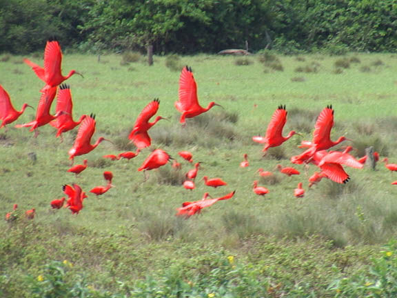 Scarlet Ibises in Brazil.